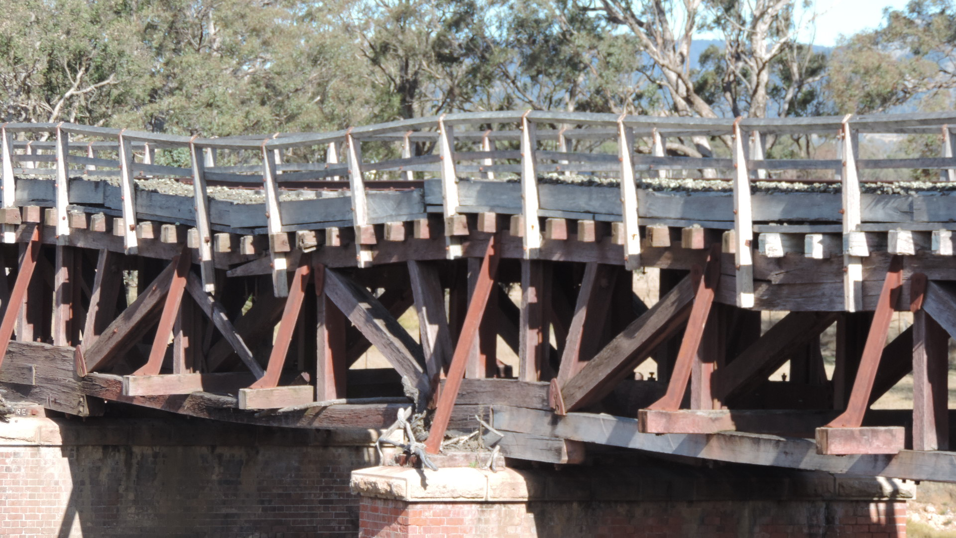 Sunnyside rail bridge over Tenterfield Creek, Main North railway line, New South Wales, 2015